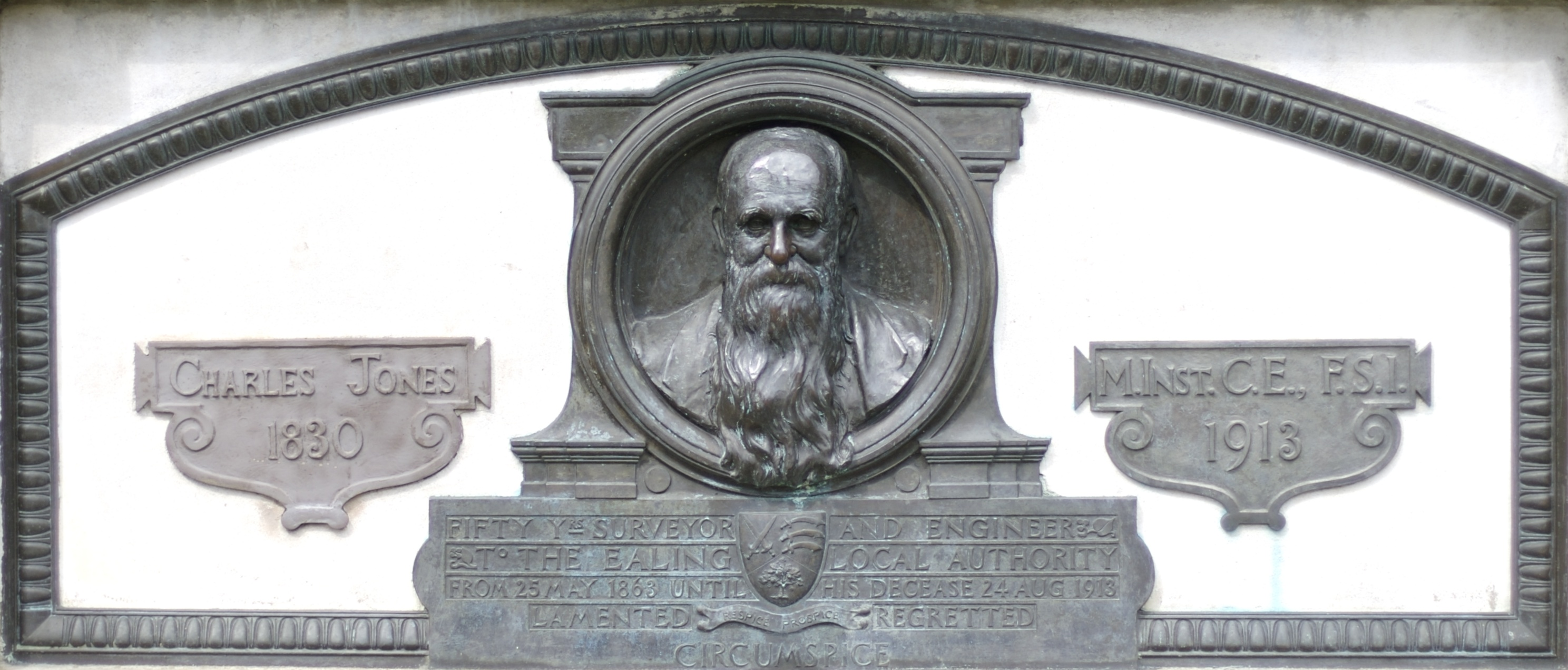 Memorial plaque to Charles Jones. Surveyor and engineer to Ealing Local Authority between 1863 to 1913.